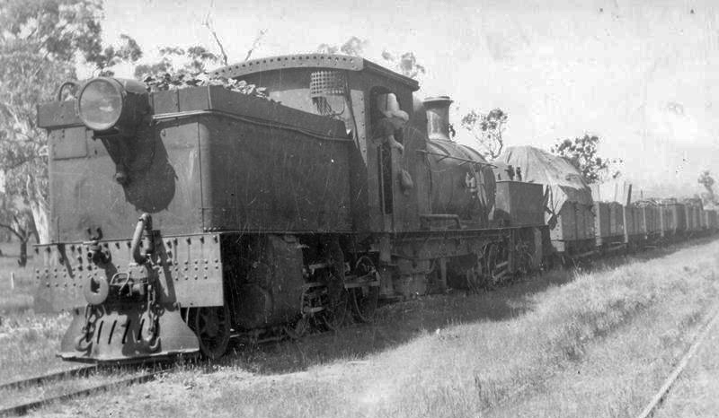 A WAGR Ms class Garratt locomotive, no. 429, with a goods train at Jarrahdale, Western Australia. (The information provided here about the date of the withdrawal of the locomotive is obtained from Gunzburg, Adrian (1984). A History of WAGR Steam Locomotives. Perth: Australian Railway Historical Society (Western Australian Division), p. 92. ISBN 0959969039.)